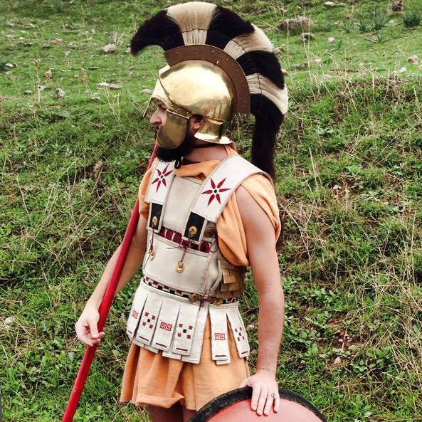 My friend Giannis Kadoglou in a recreated early 5th c. leather spola